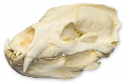 Skull of a sloth bear